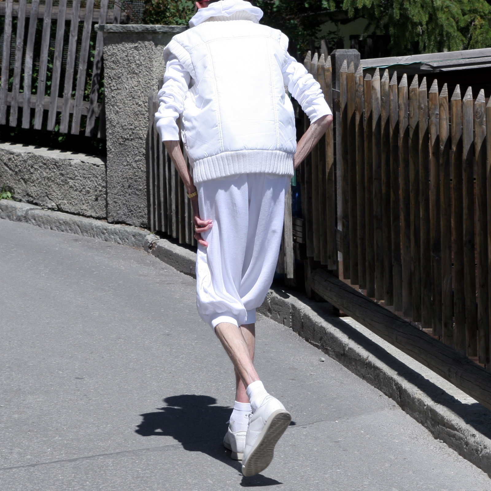 Woman, strongly underweight.